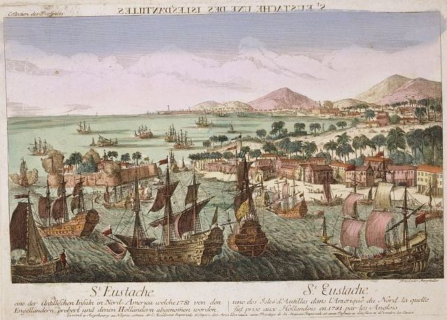 German print color of the island of St. Eustatius. Text in French and German. The shape of the vessels suggests the resumption of an older image, probably from the late seventeenth century. As a peep show card it shows the header in mirror writing. The island of St. Eustatius taken by the English fleet in February 1781. The island was pillaged by the troops of George Rodney